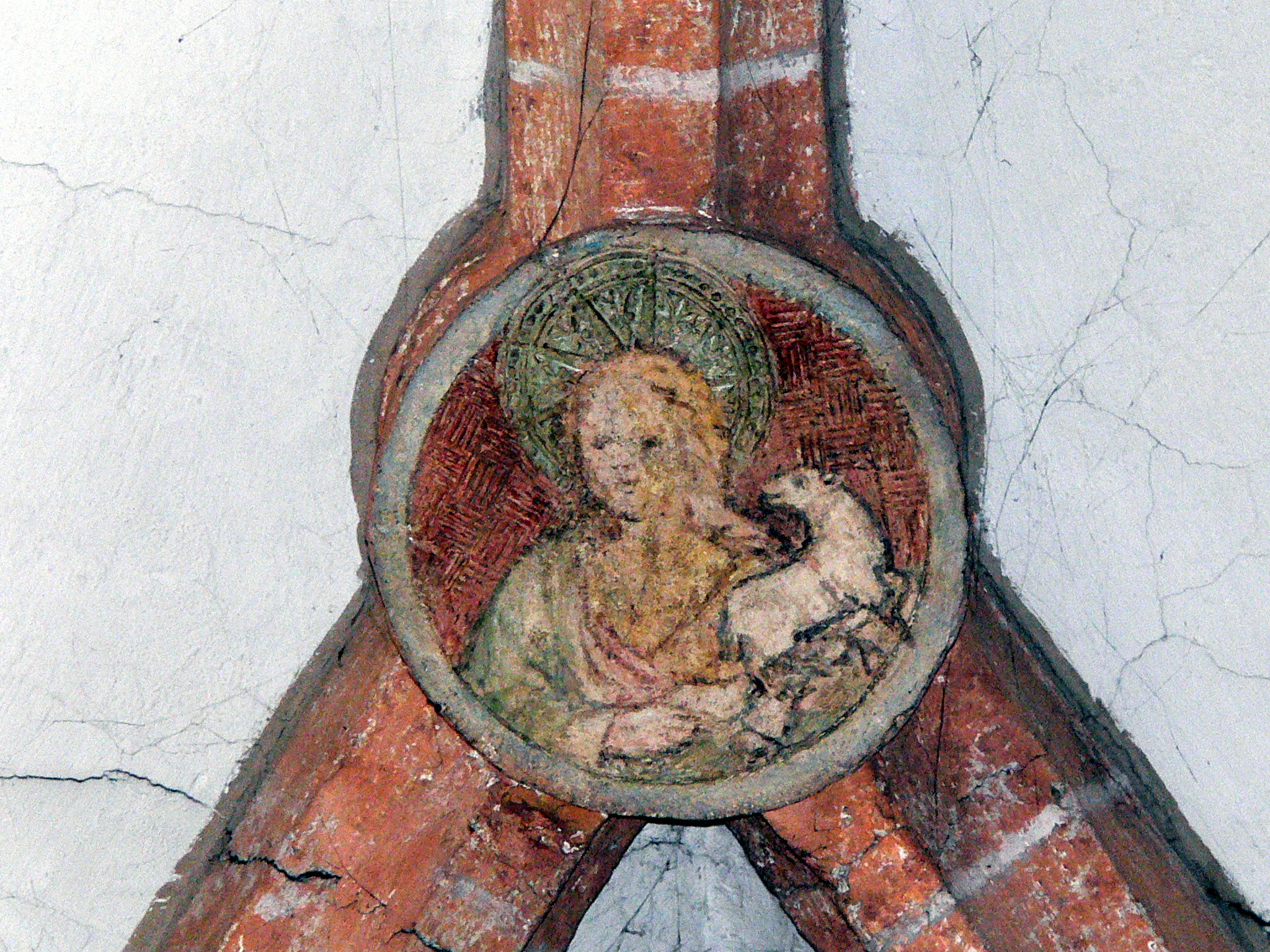 Our Lady´s church in Bischofshofen ( Salzburg ). Boss ( 1440 ) in the apse showing Saint John the Baptist with lamb.